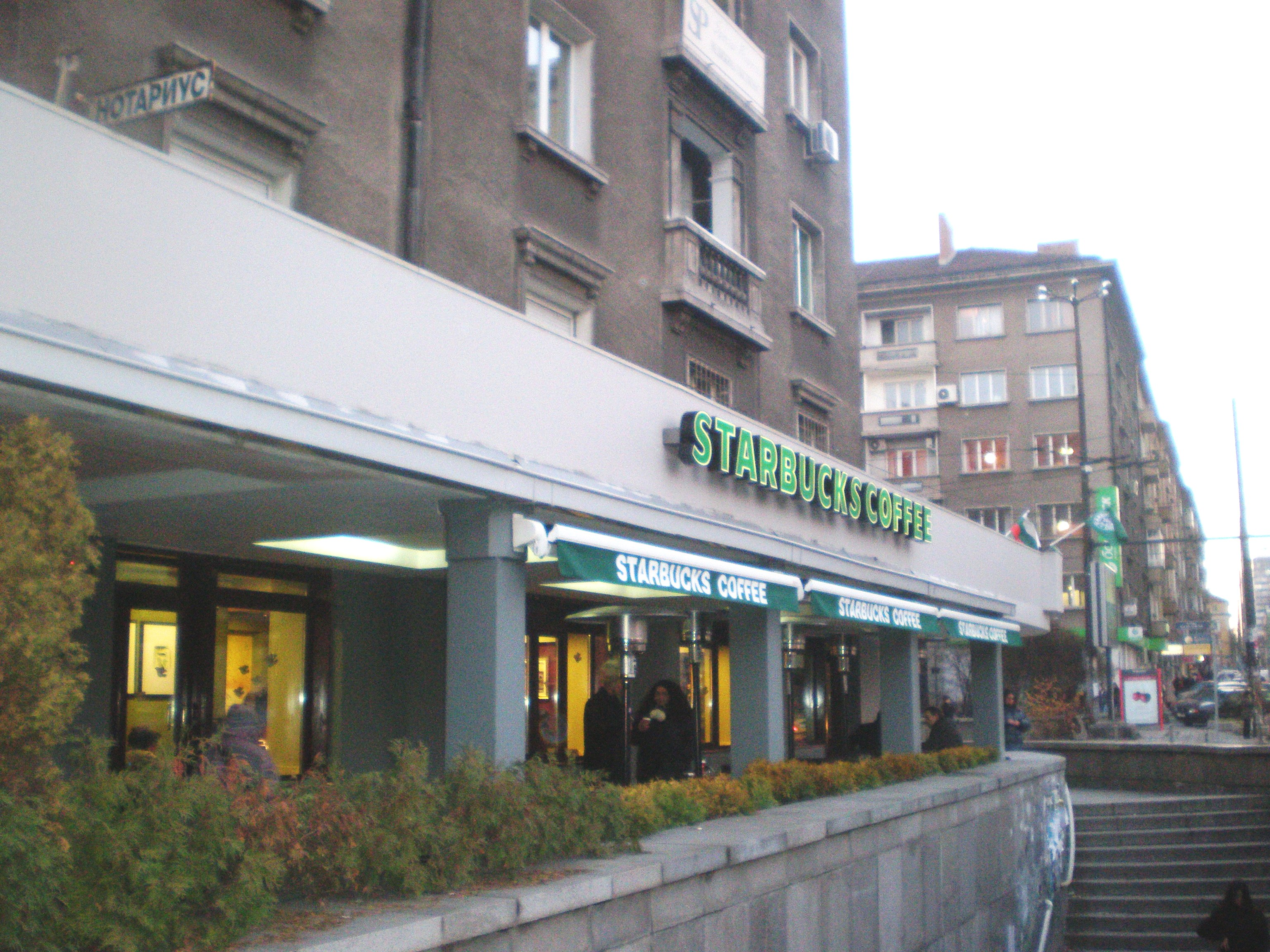 Starbucks in Sofia, Bulgaria